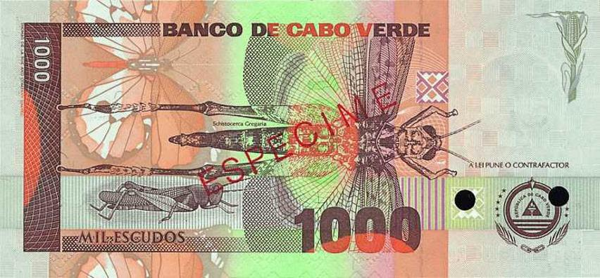 Cape-verdean 1992 1000CVE note - back